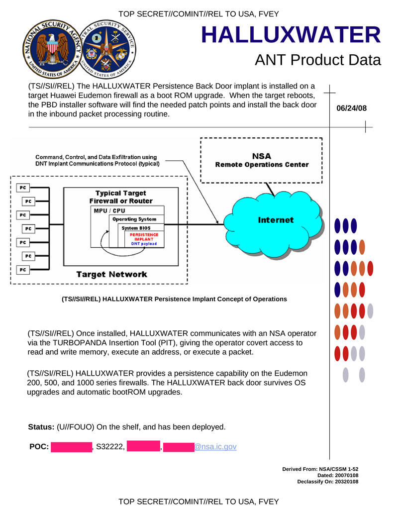 NSA software backdoor that targets Huawei's Eudemon Firewall